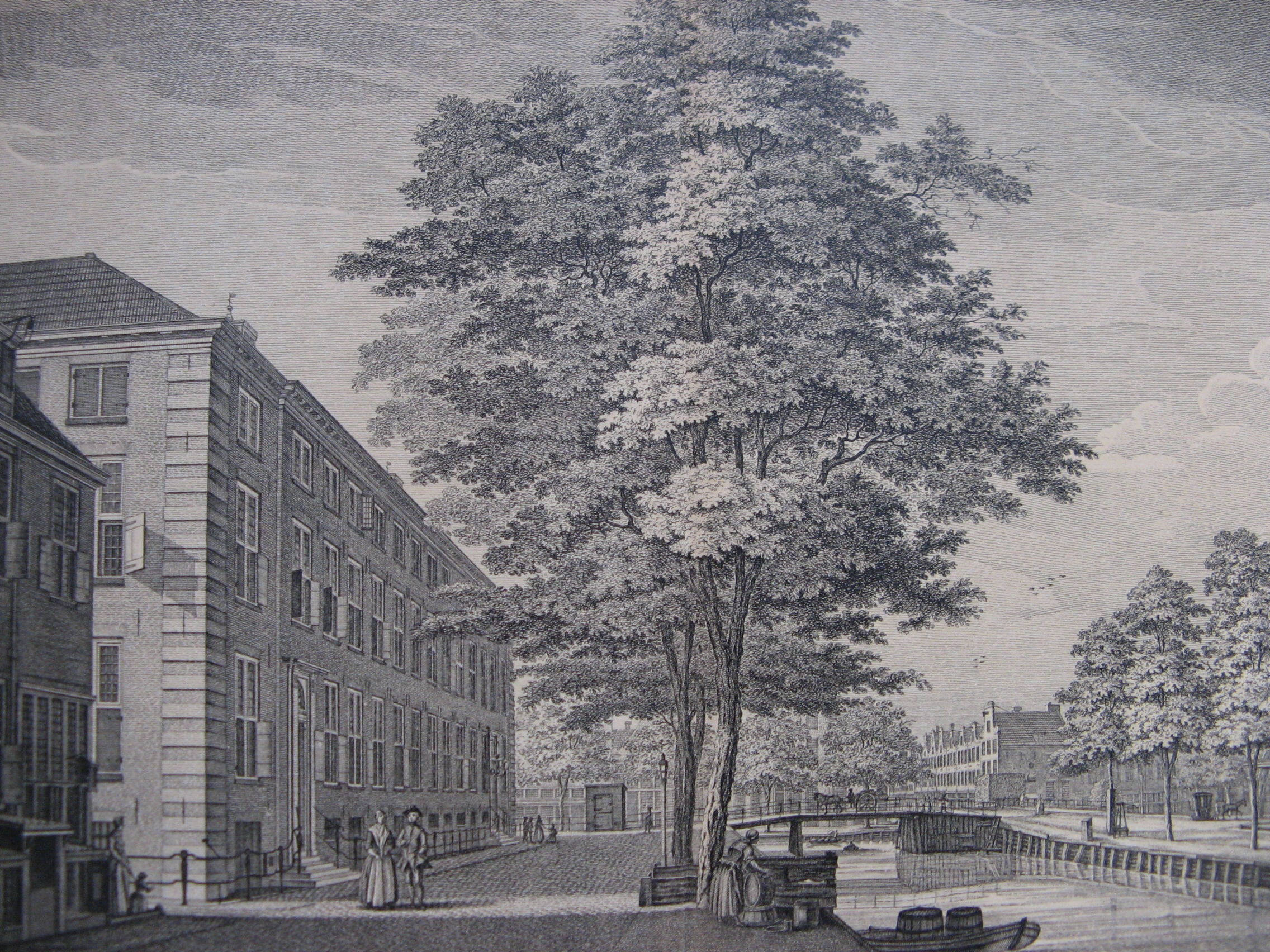 Engraving of Wale-weeshuis in Amsterdam, now the French consulate and the "Institut français"